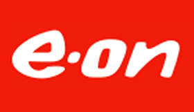 e.on logo